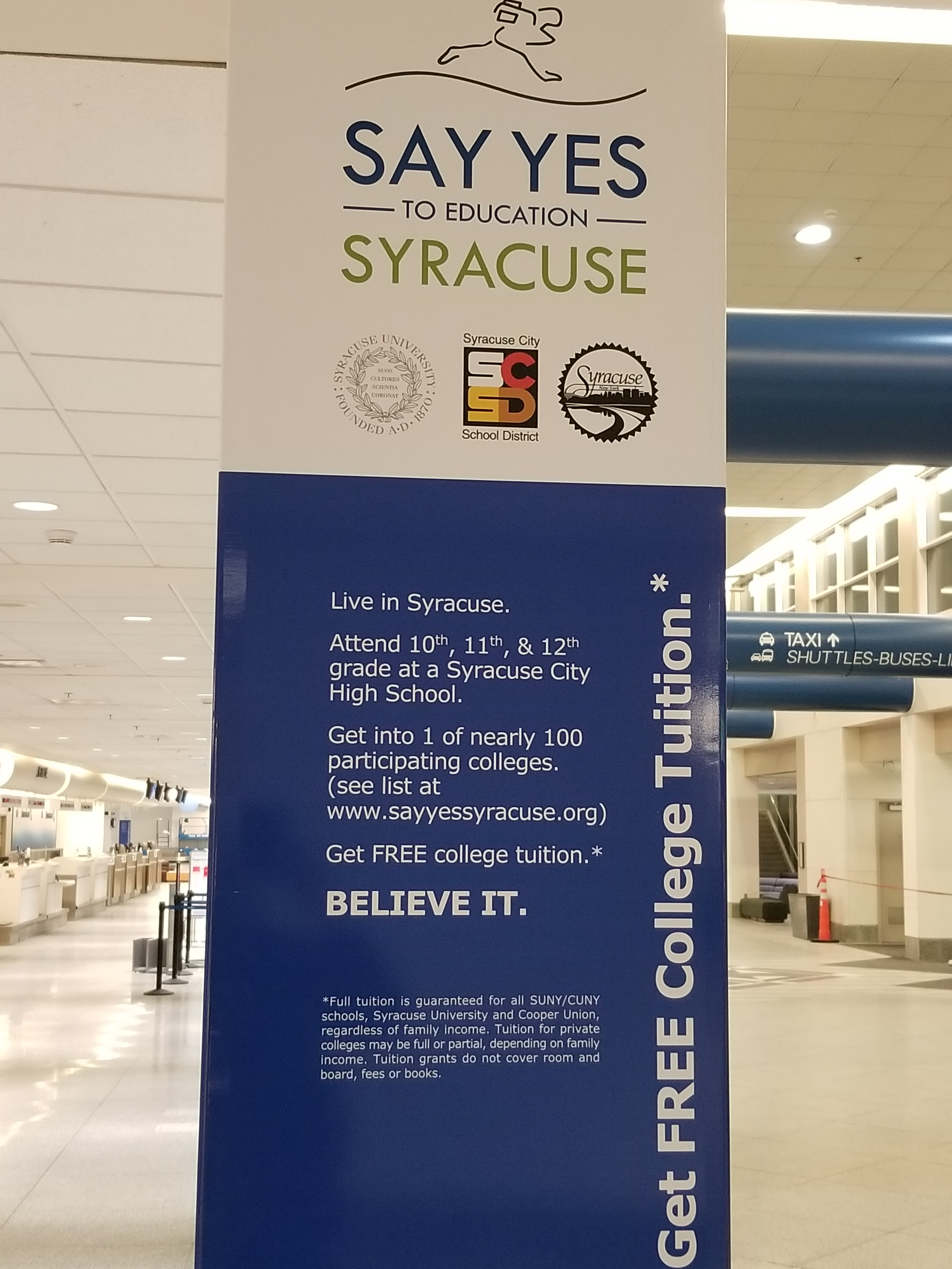 "Say Yes to Education" signage, Syracuse Airport, January 2018